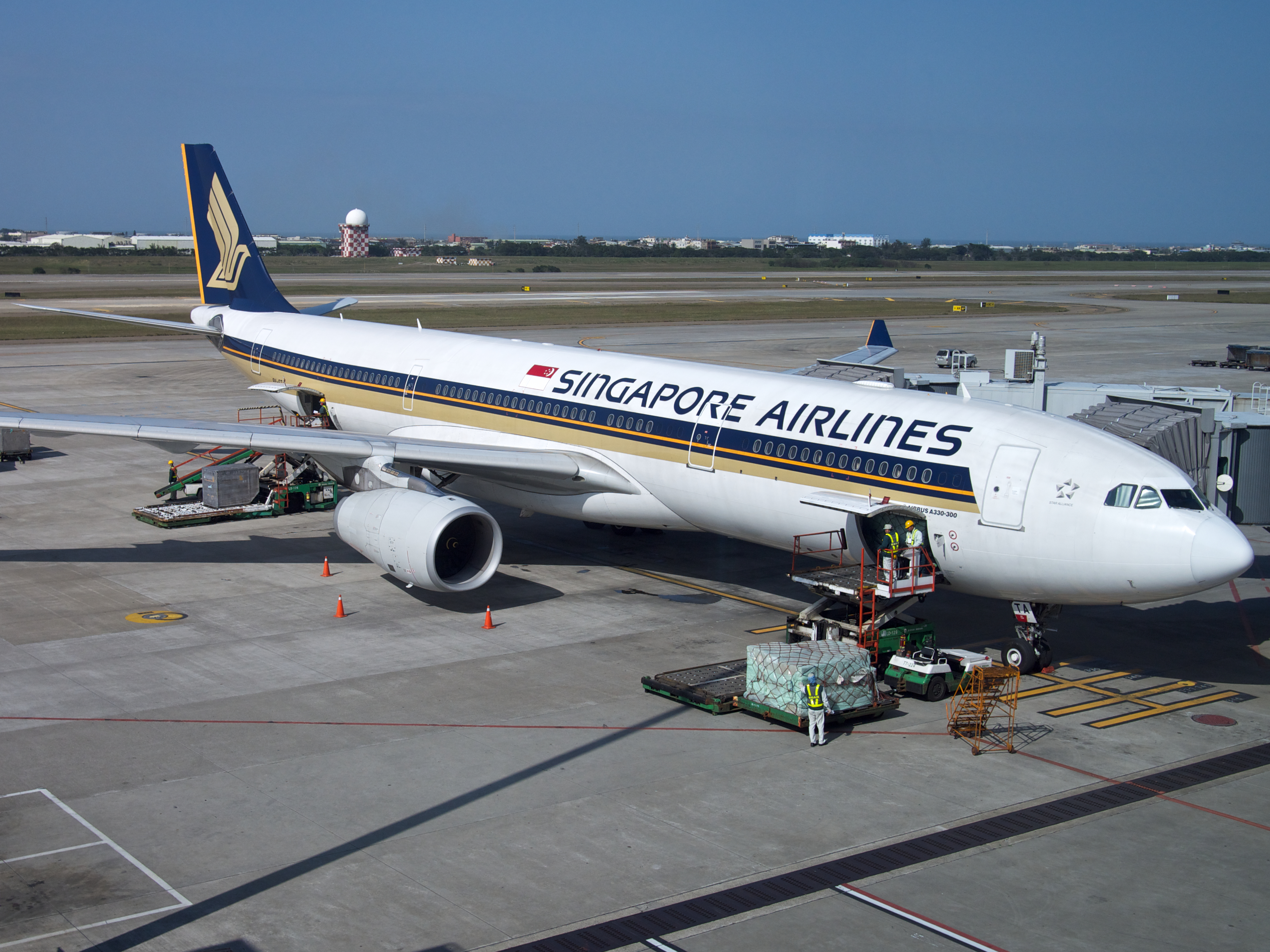 9V-STA | c/n 978 | A330-343X | Singapore Airlines | Taipei